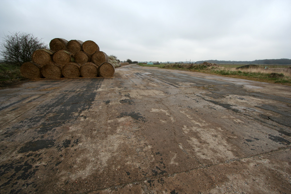 Disused airfield perimeter track